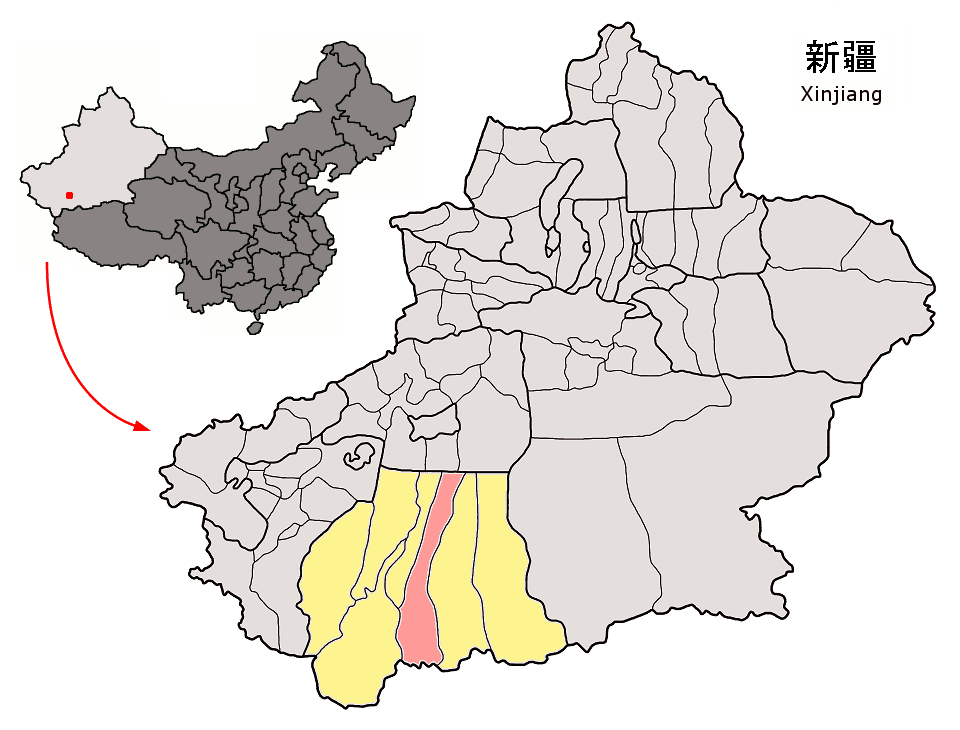 Location of Chira County (pink) and Hotan Prefecture (yellow) within Xinjiang autonomous region of China Map drawn in september 2007 using various sources, mainly : Xinjiang Uygur autonomous region administrative regions GIS data: 1:1M, County level, 1990 Xinjiang Counties map from